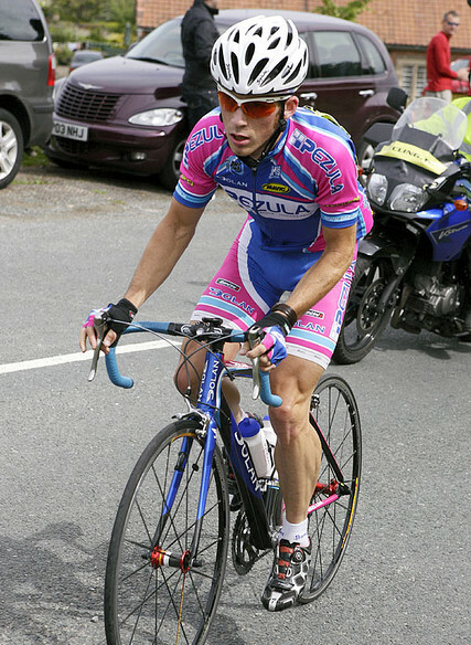 Kieran Page (Pezula Racing) during 2008 National Road Race Championship, Helmsley, North Yorkshire.